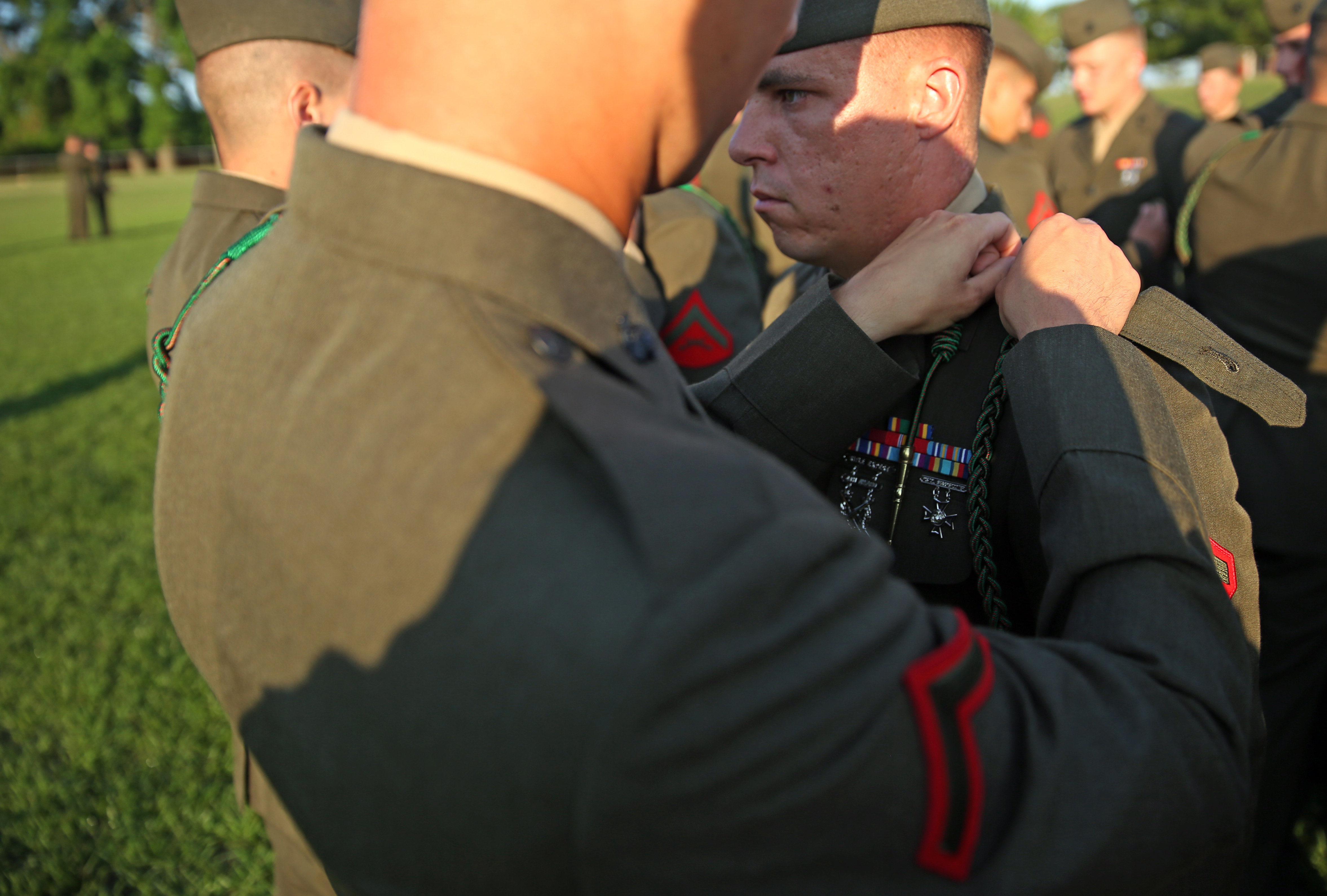 Marines with Kilo Company, Battalion Landing Team 3rd Battalion, 6th Marine Regiment, 24th Marine Expeditionary Unit present Marines new to the unit with the French Fourragere during a ceremony at Camp Lejeune, N.C., June 19, 2014. The country of France awarded the French Fourragere to the Marines and Sailors of the 5th and 6th Marine Regiments in 1918 for their heroism and bravery in the battles of Belleau Wood, Soissons, and Champagne during World War I. To this day, the 5th and 6th Marine Regiments are the only U.S. service members authorized to wear the Fourragere. (U.S. Marine Corps photo by Lance Cpl. Joey Mendez)